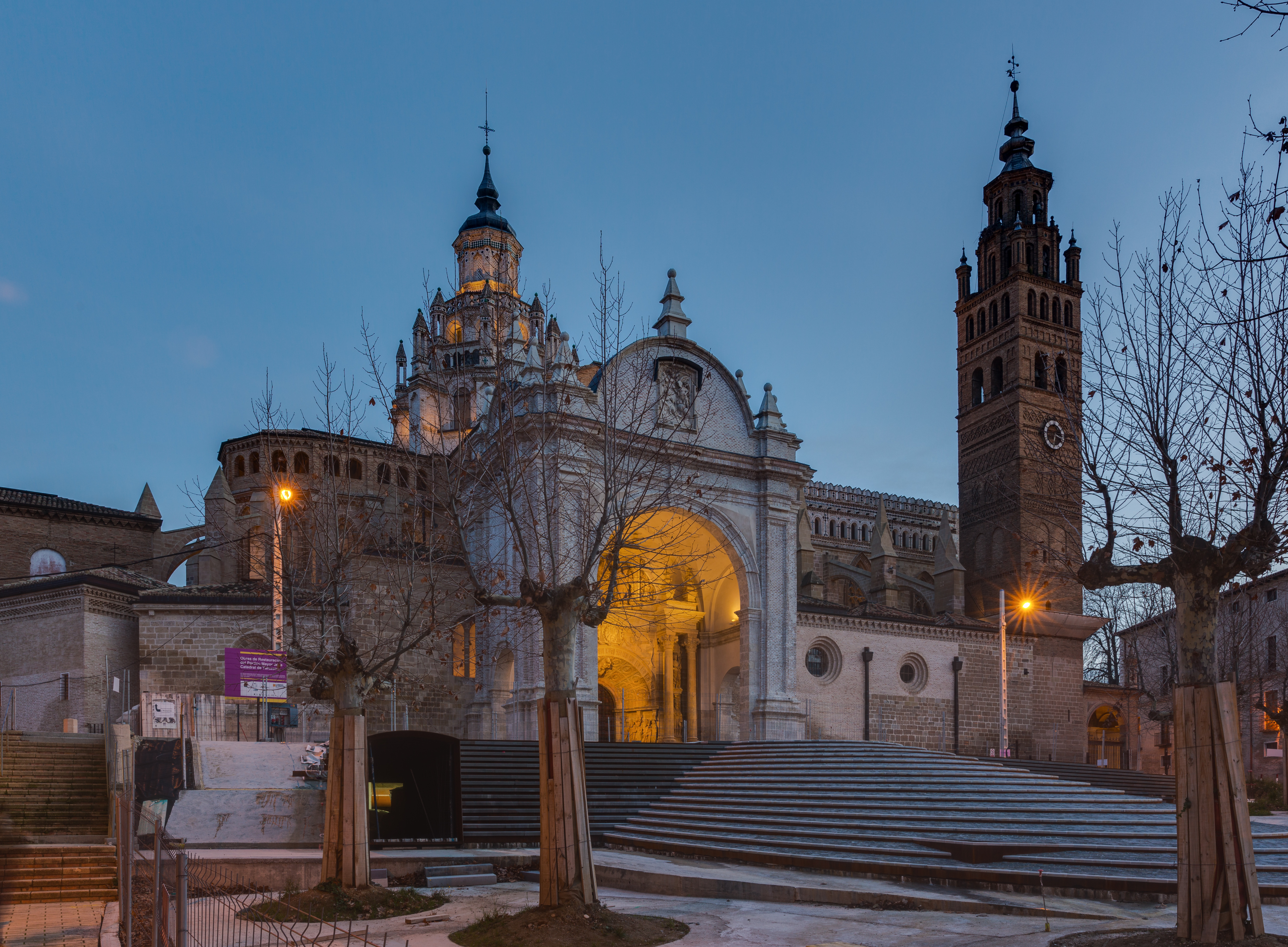 Cathedral our Our Lady of the Orchard, Tarazona, Spain